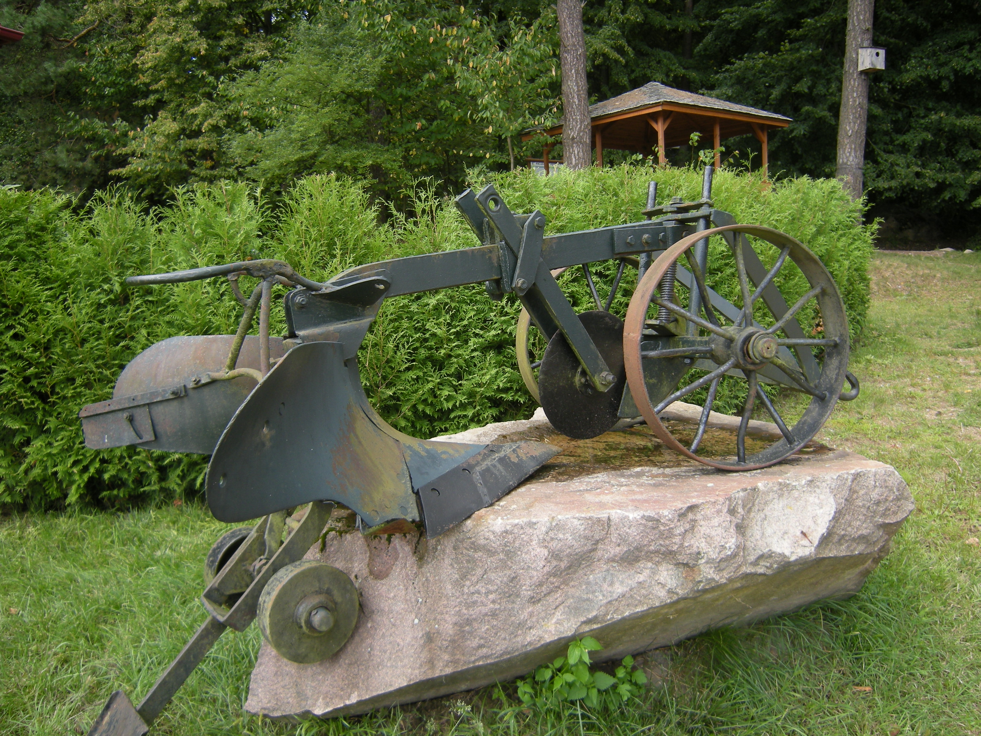 Plough